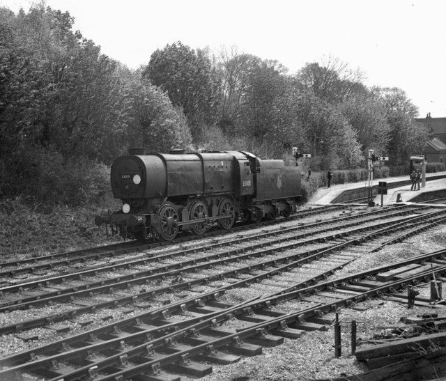 Class Q1 locomotive at Horsted Keynes